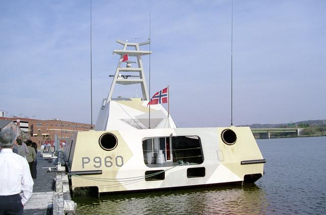 Stern-on view of the HNoMS SKJOLD (P960), the Royal NORWEGIAN Navy's Skjold-class Fast Patrol Craft. The vessel is tied up at pier one, where they are holding an open house for personnel of the Washington Navy Yard. Note the ship is painted in a splinter camouflage pattern.